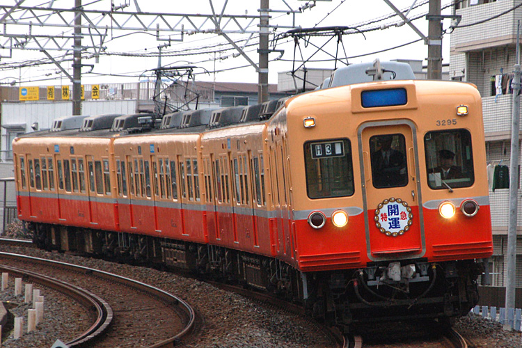 Keisei 3200 series EMU in old-style livery and named "Kaiun-go" between Machiya and Senjuohashi Station